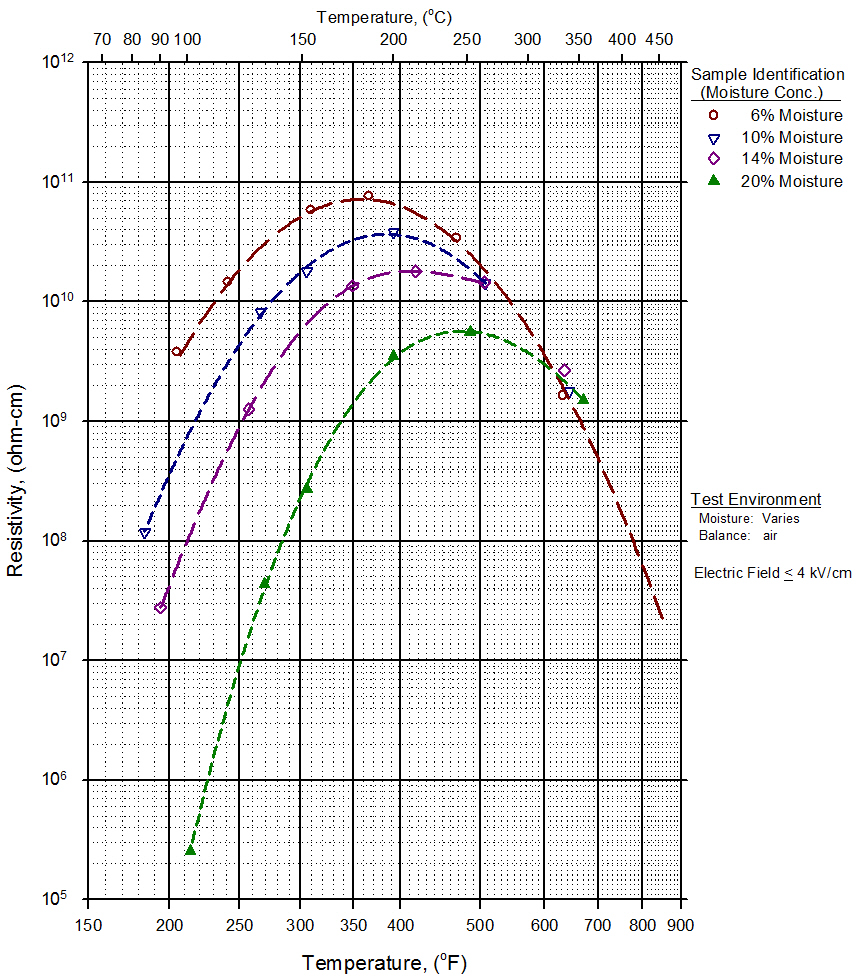 Resistivity Measured in an Air Environment as a Function of Temperature and Moisture Content (Humidified Air).